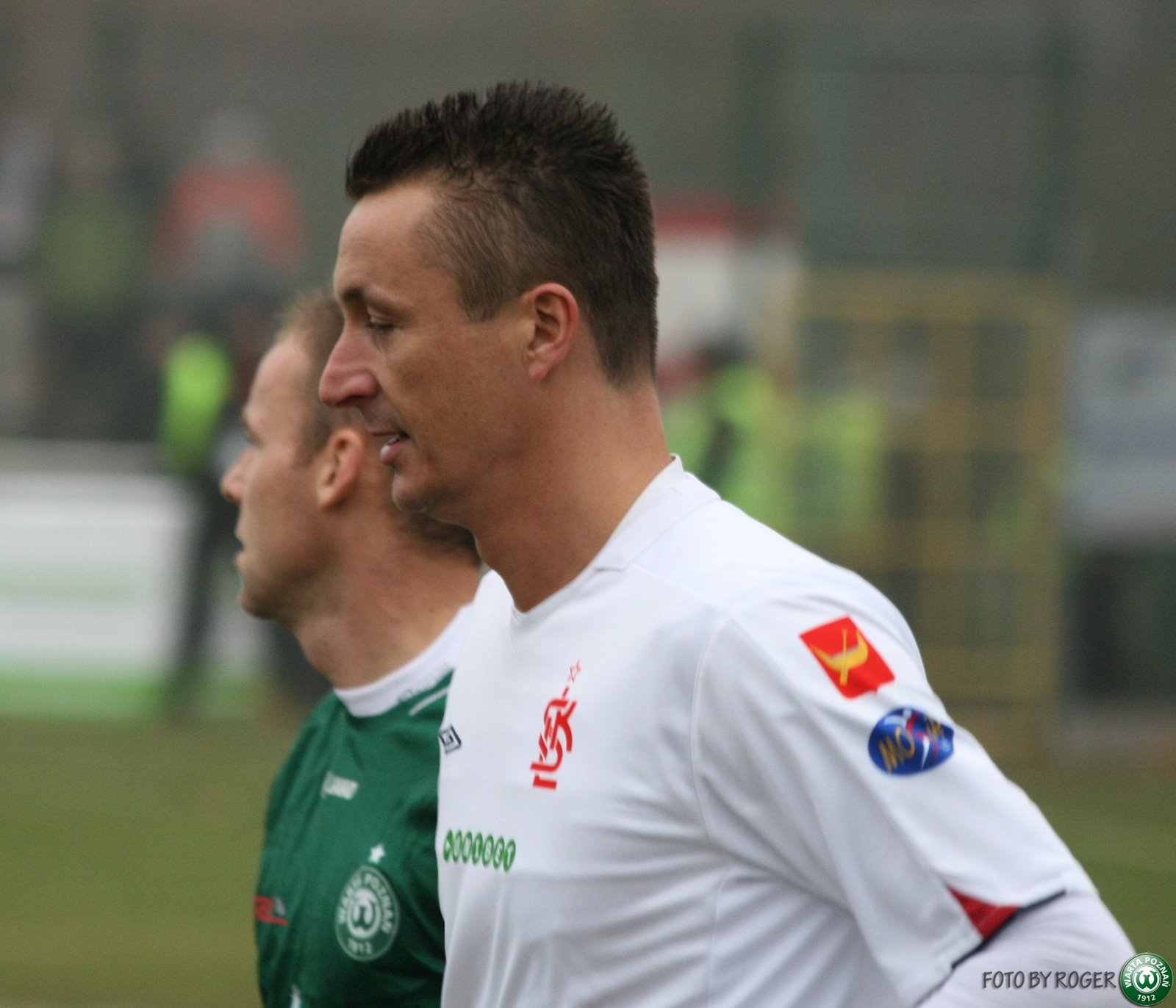 Polish football player Tomasz Hajto during Warta Poznań - ŁKS Łódź match